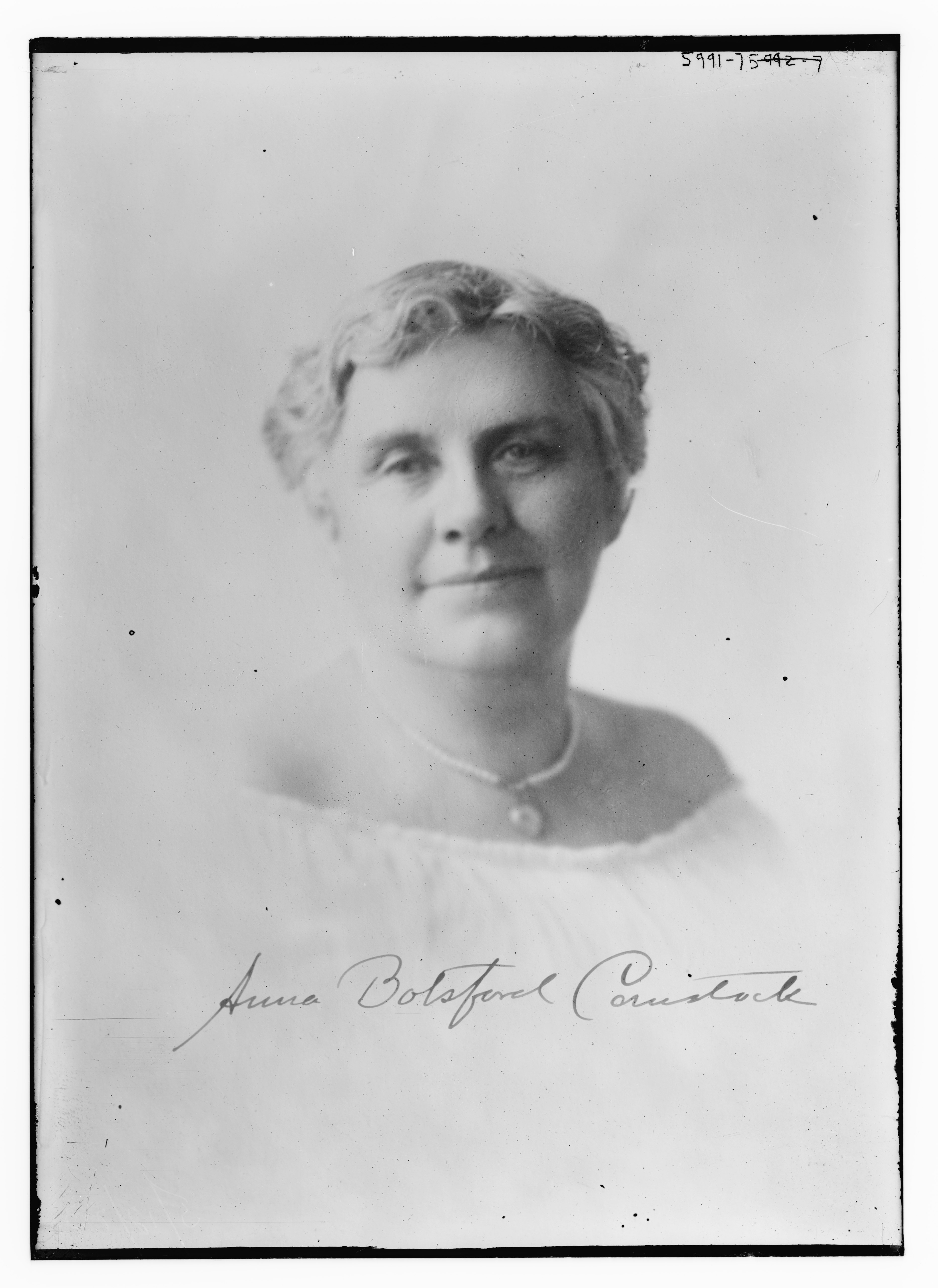 Title: Anna Botsford Comstock Abstract/medium: 1 negative : glass ; 5 x 7 in. or smaller.